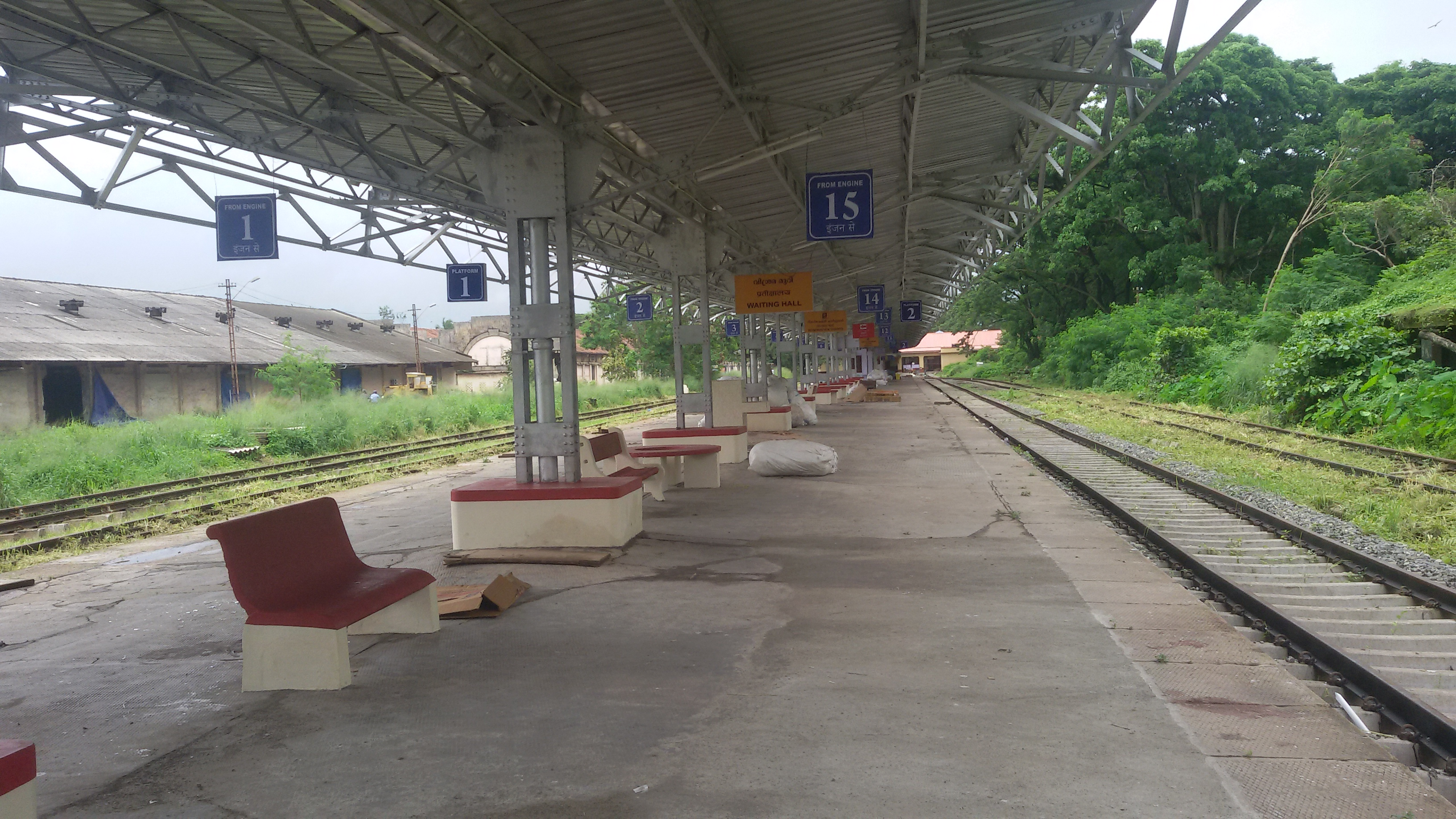 Image of Cochin Harbour Termius (CHTS) station situated at Wellington Island in Kochi. Image shows the two platforms of the station on both the sides